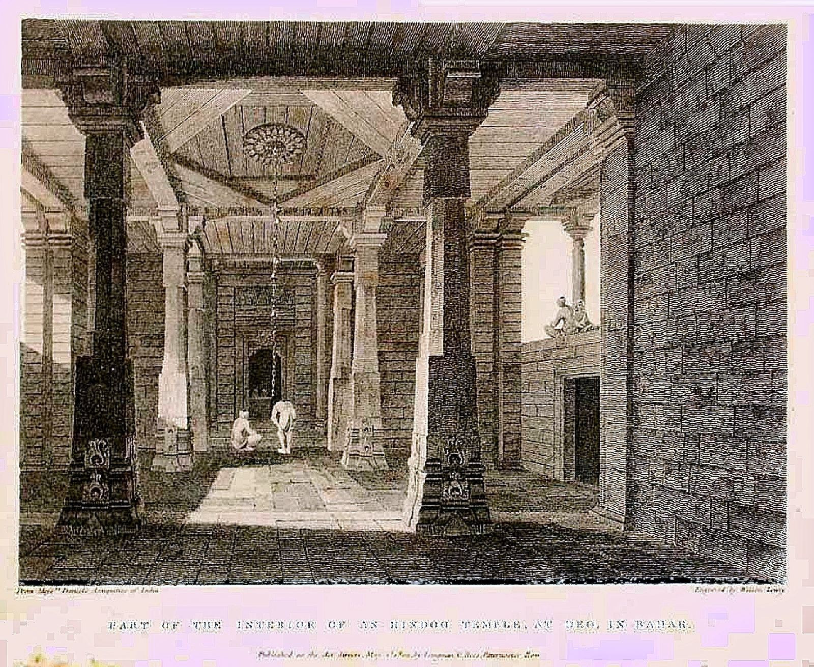 "Part of the interior of an Hindoo Temple, at Deo, in Bahar," from Rees's Cyclopedia, 1802 (originally by the Daniells, from Antiquities of India) Source: ebay, Apr. 2005